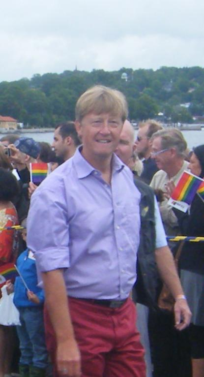 Minister of the Environment of Sweden, Andreas Carlgren